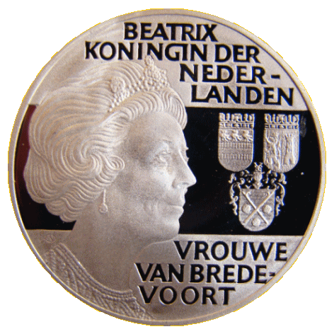 Coin_bredevoort